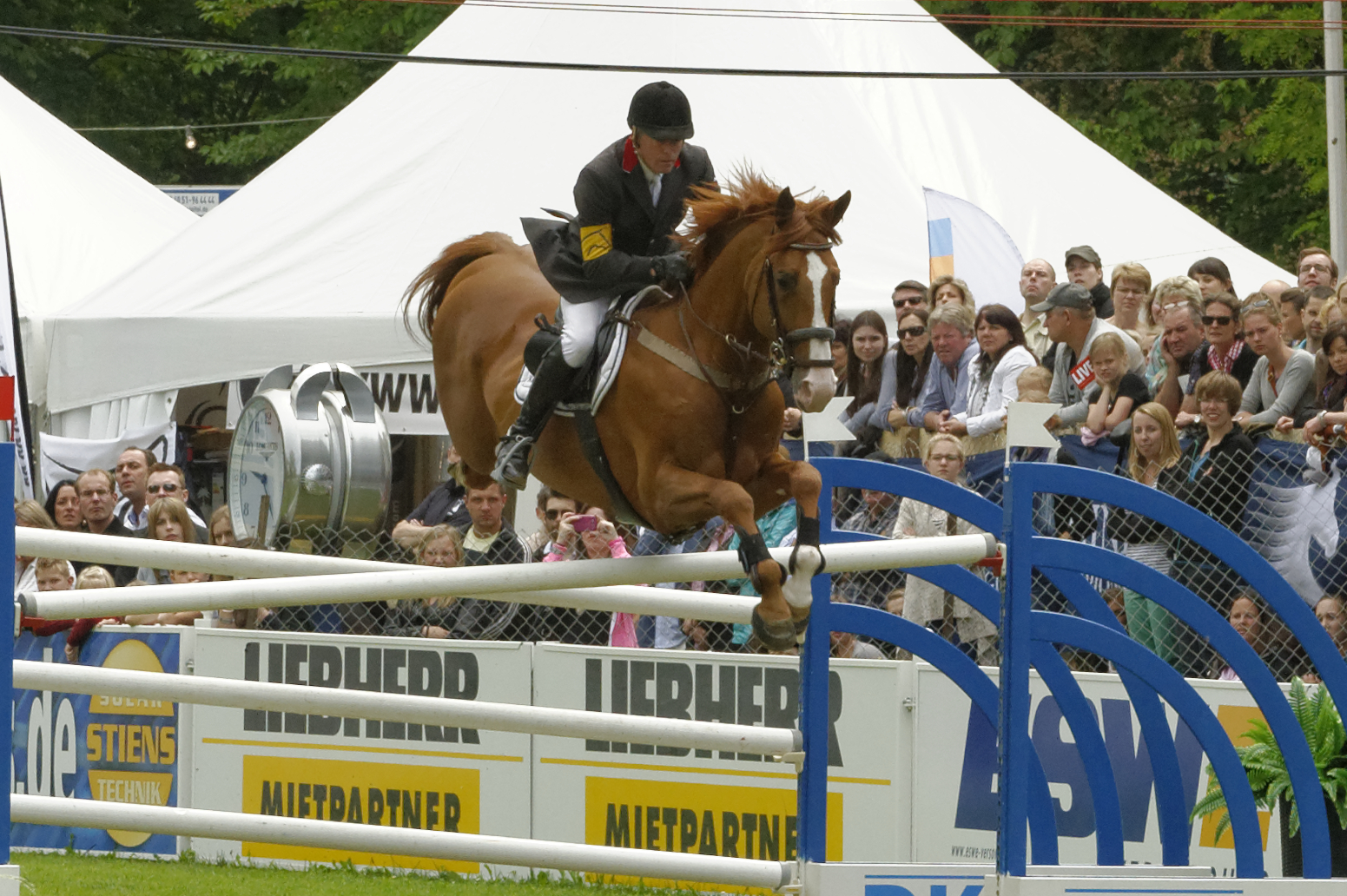 Internationales Pfingstturnier Wiesbaden 2013 The making of this document was supported by the Community-Budget of Wikimedia Germany.